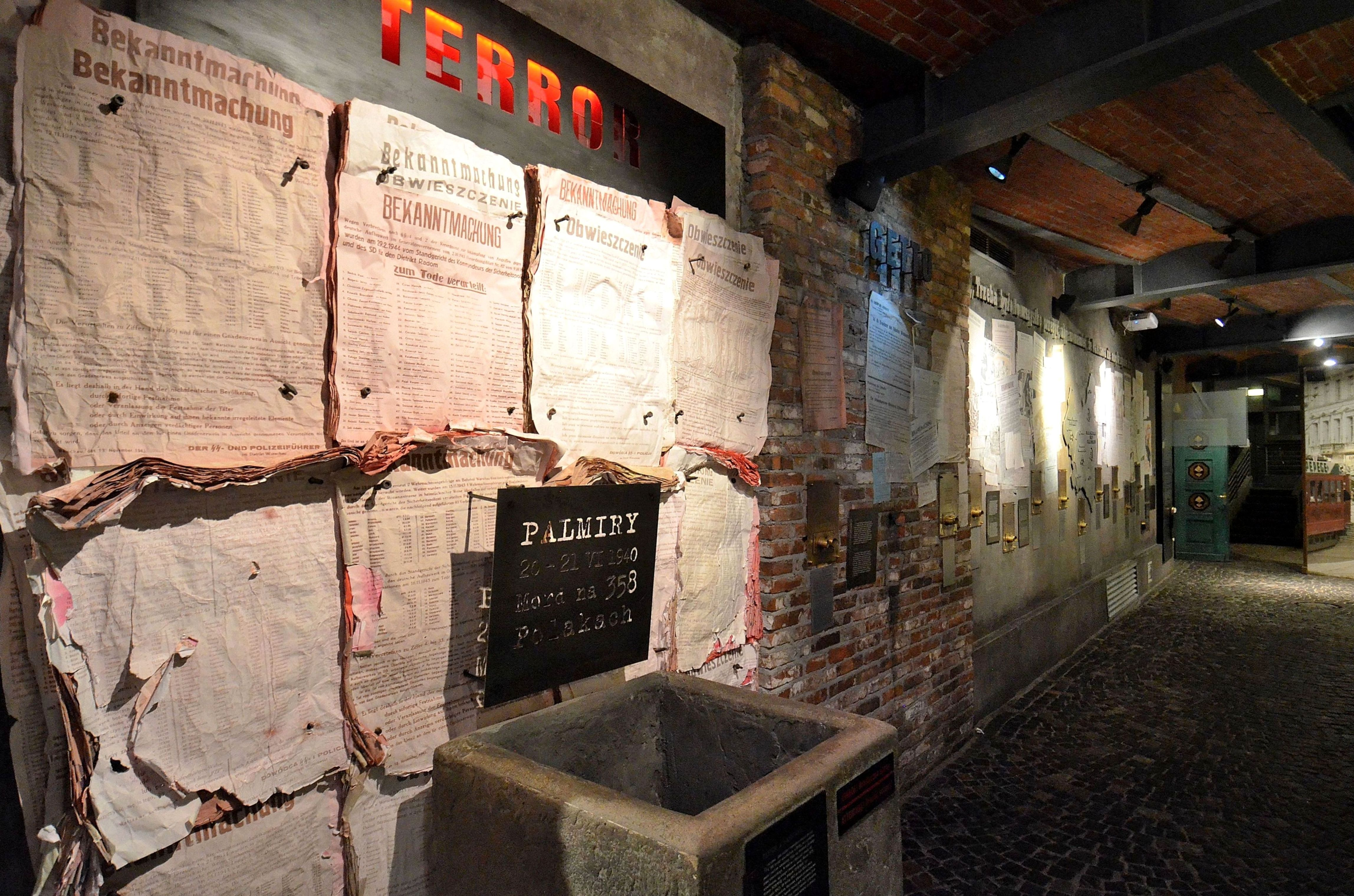 Warsaw Uprising Museum English | polski | +/−